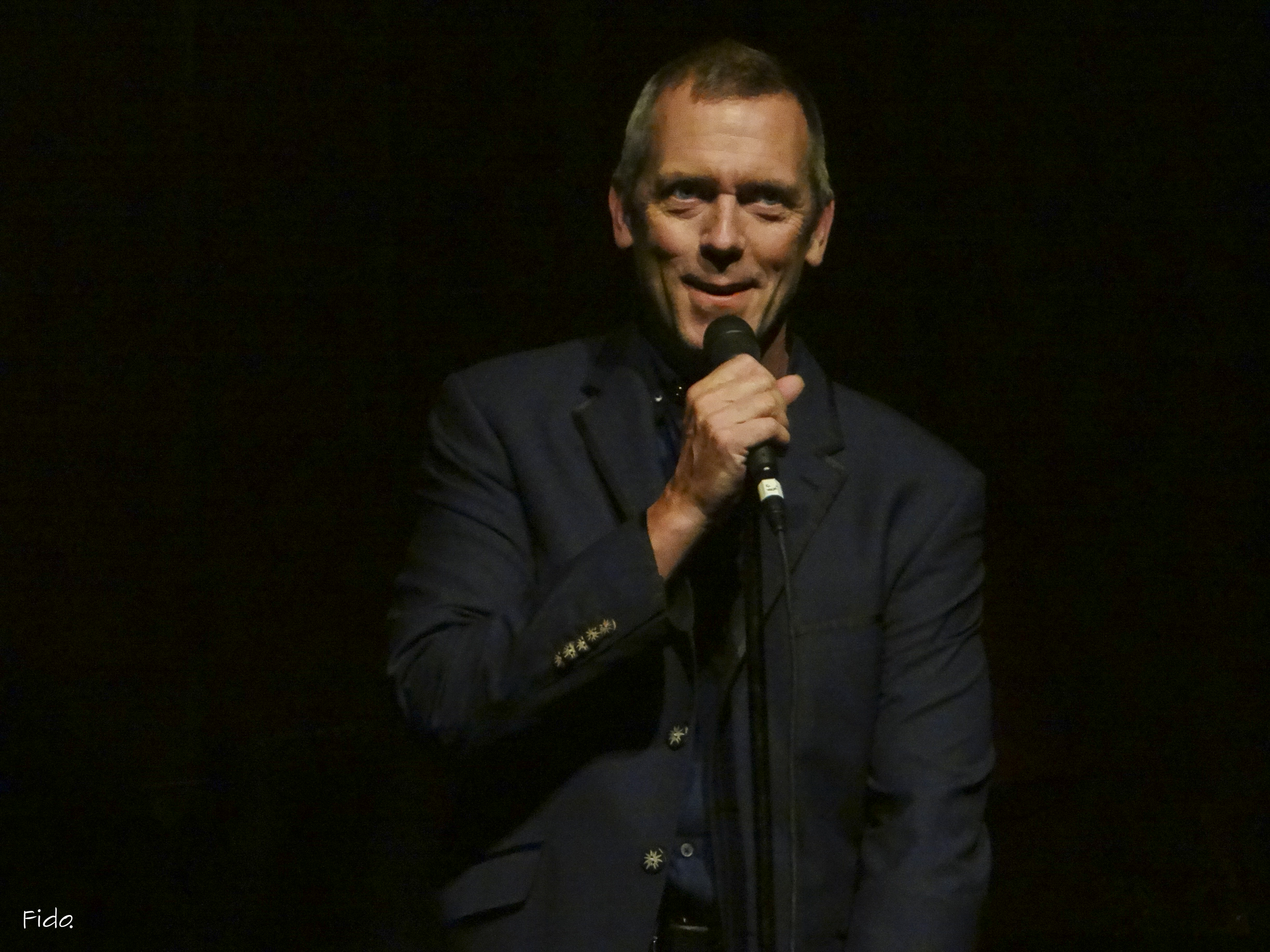 Presentation @ El Rey Theatre Los Angeles, California 5/24/2012